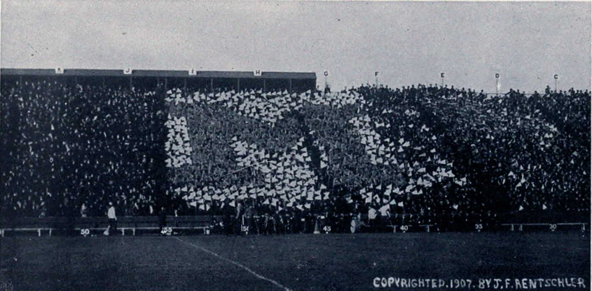 Photograph of "The Human M" at a University of Michigan football game in 1907